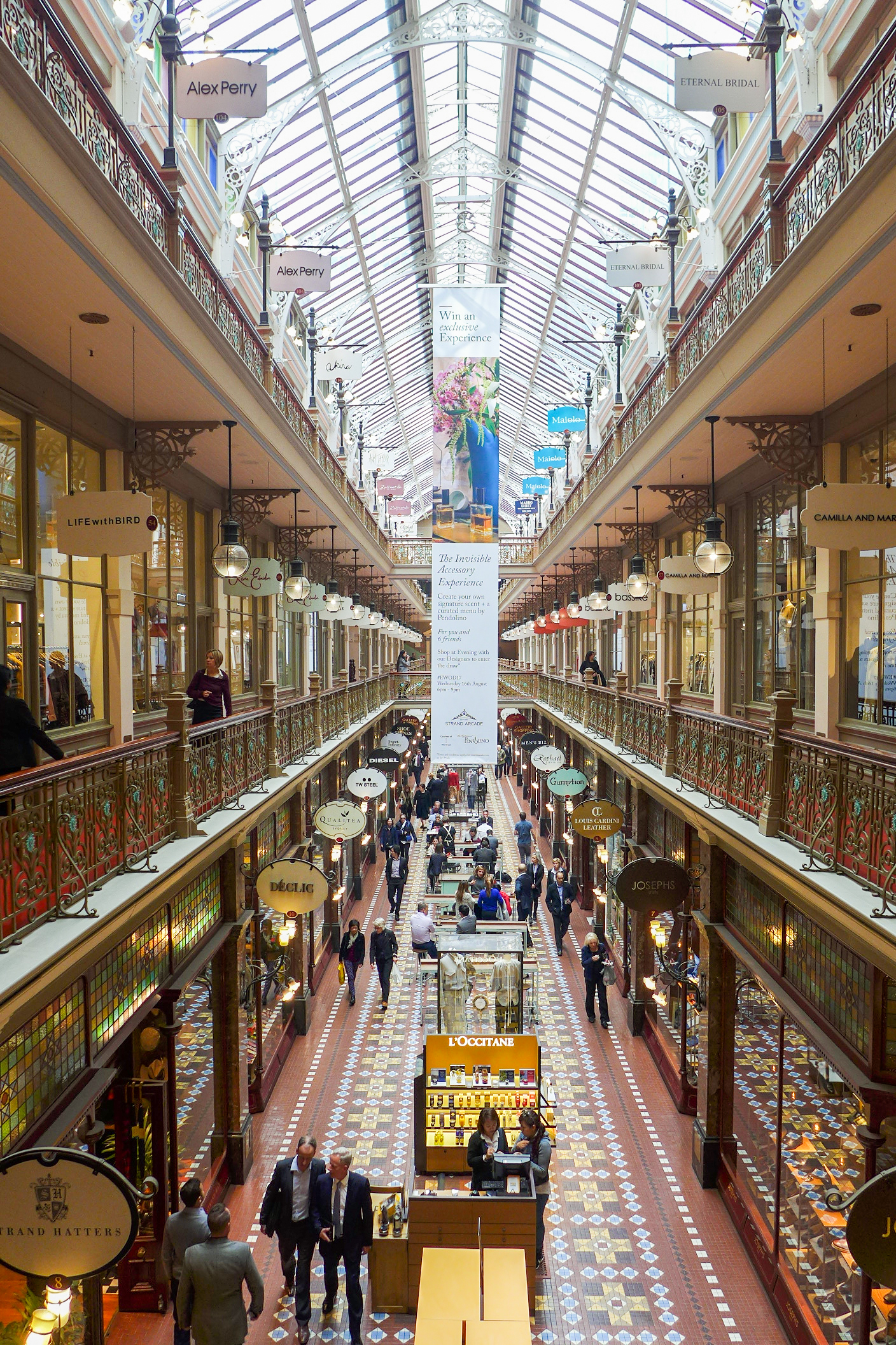 The Strand Arcade